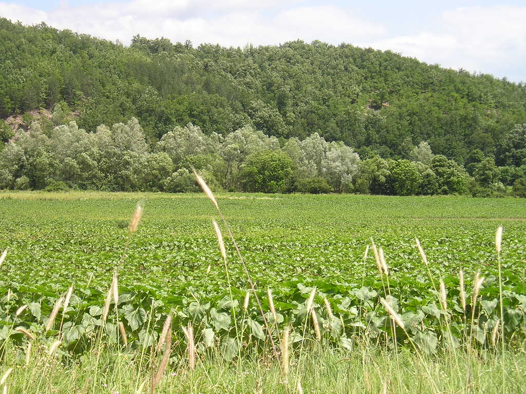 Sunflower plantations in the locality of village Protopopintzi, Bulgaria